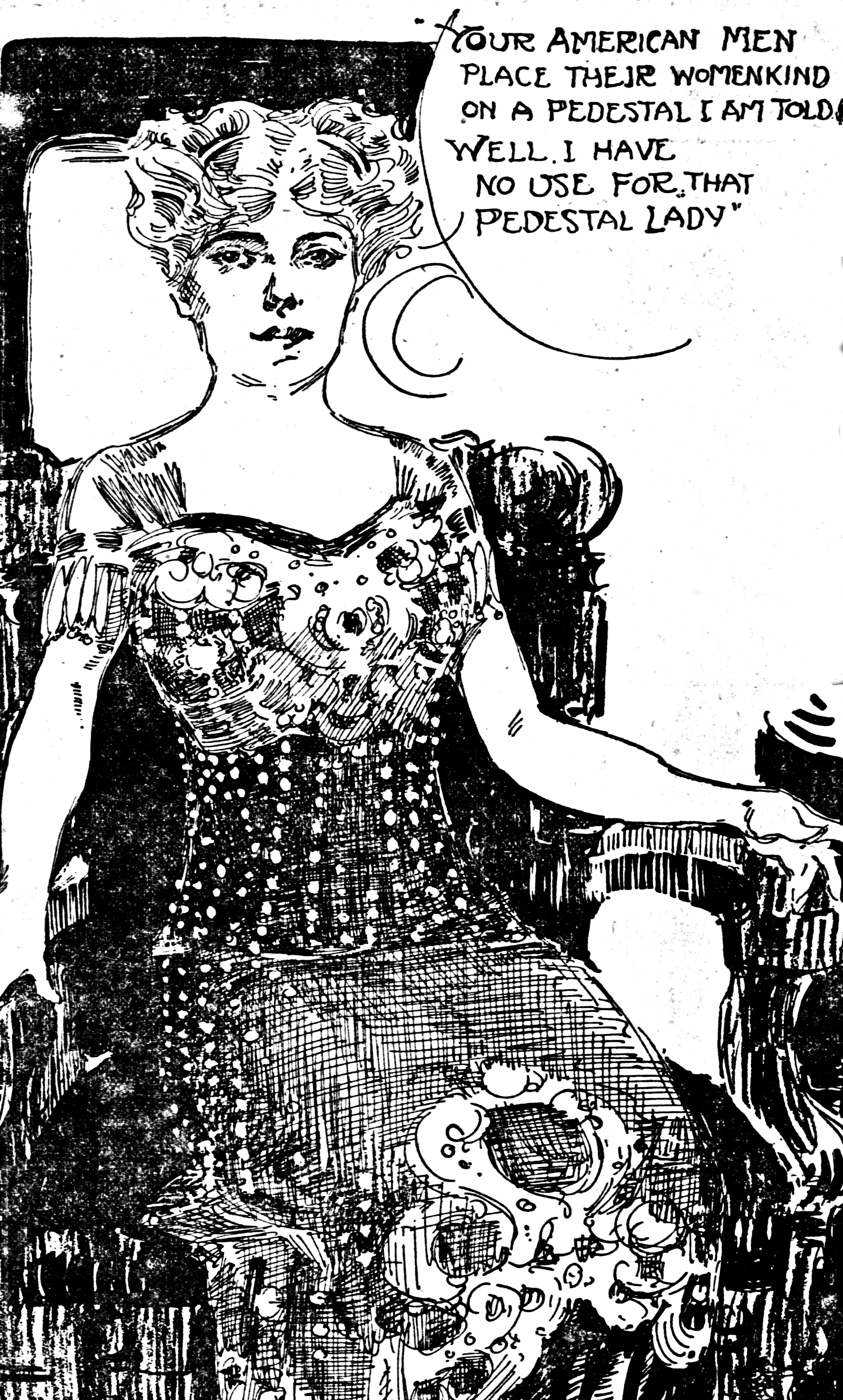 Suffragist Ethel Annakin Snowden as sketched by Marguerite Martyn during a visit to St. Louis, Missouri, 1910